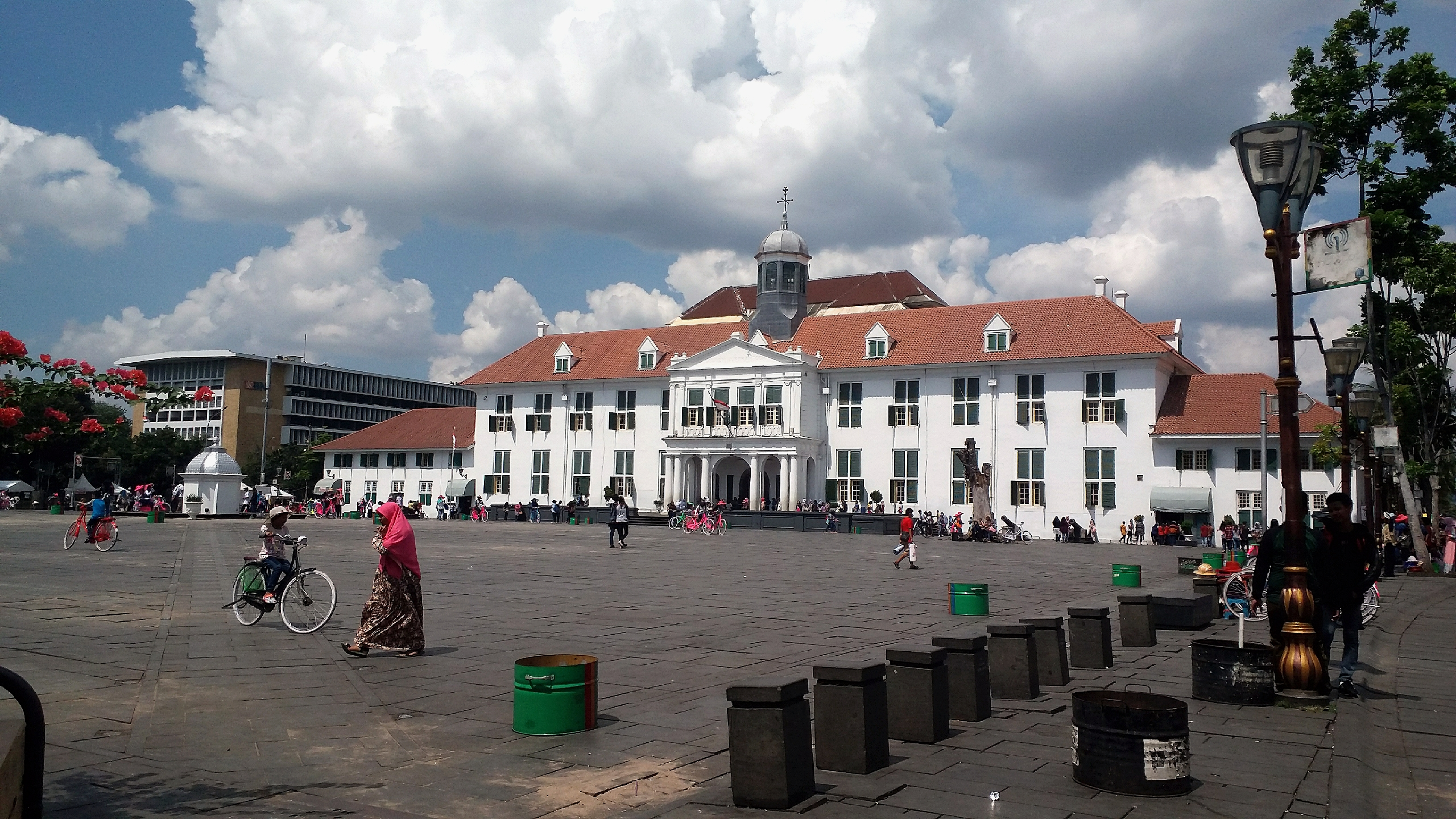 Jakarta old town. The stadhuis. This is a real my own work.